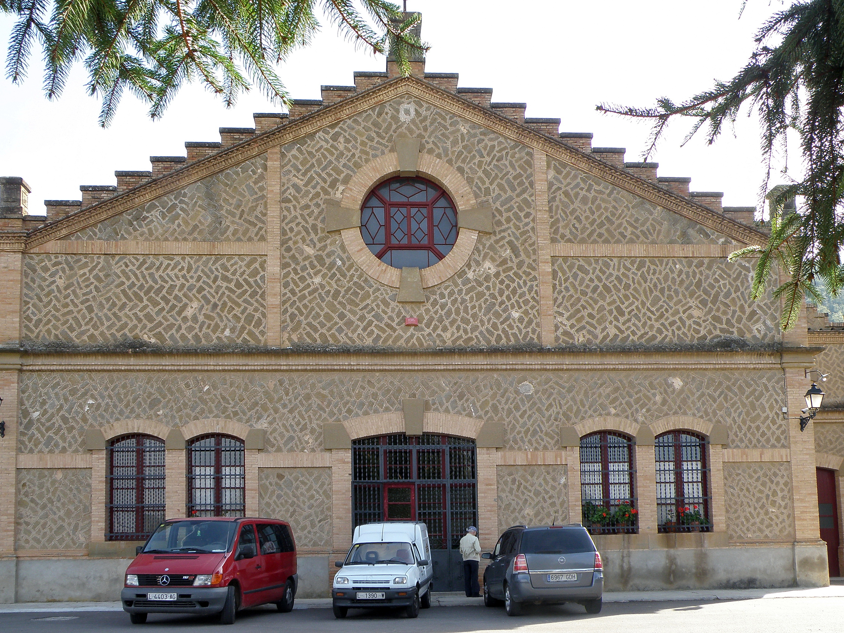 Factory in El Pont d'Alentorn, front view